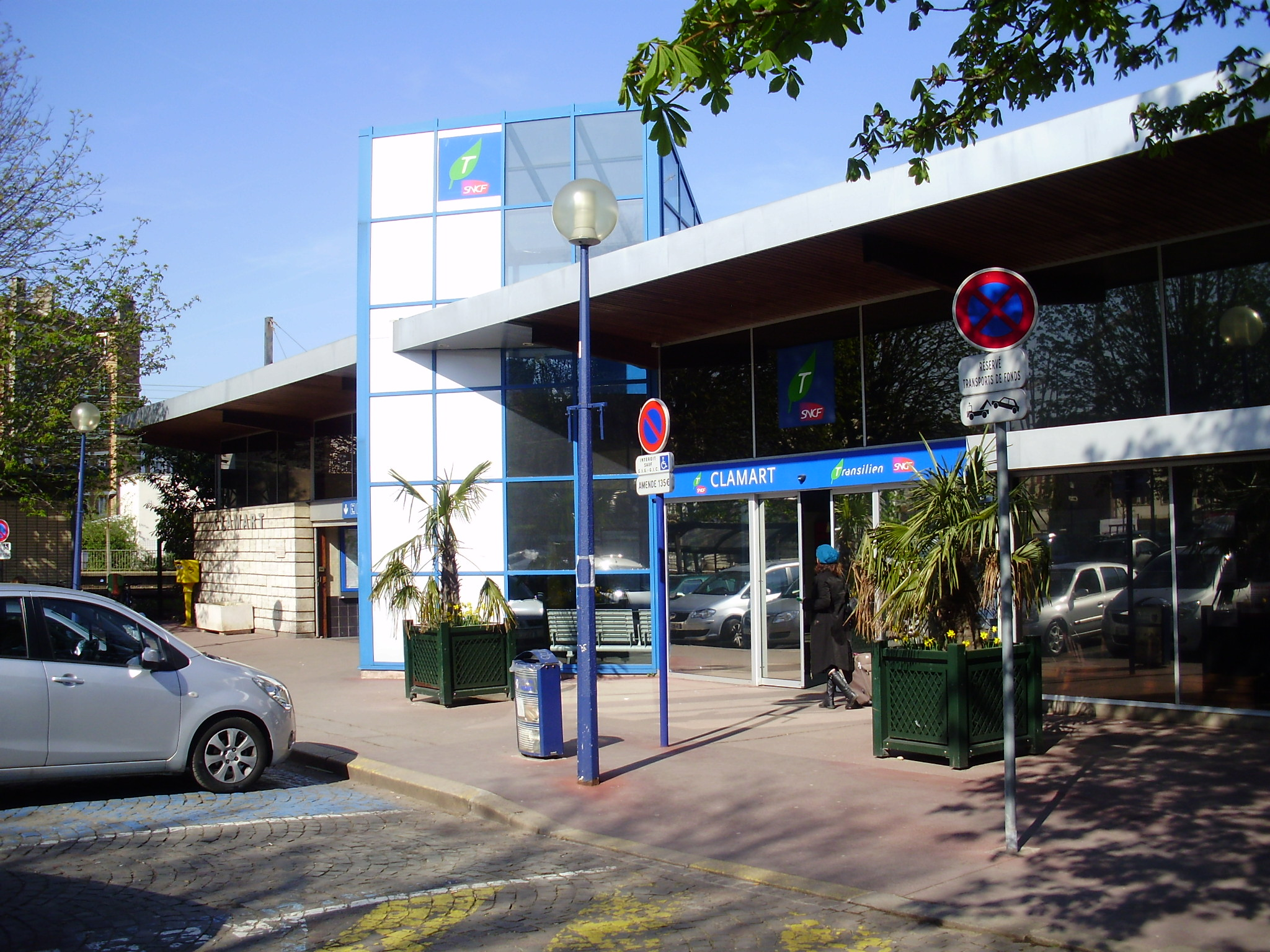 Clamart station - entrance, Hauts-de-Seine, France